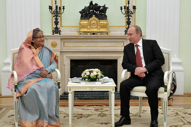 Vladimir Putin held talks with Prime Minister of Bangladesh Sheikh Hasina (Moscow; 2013-01-15).